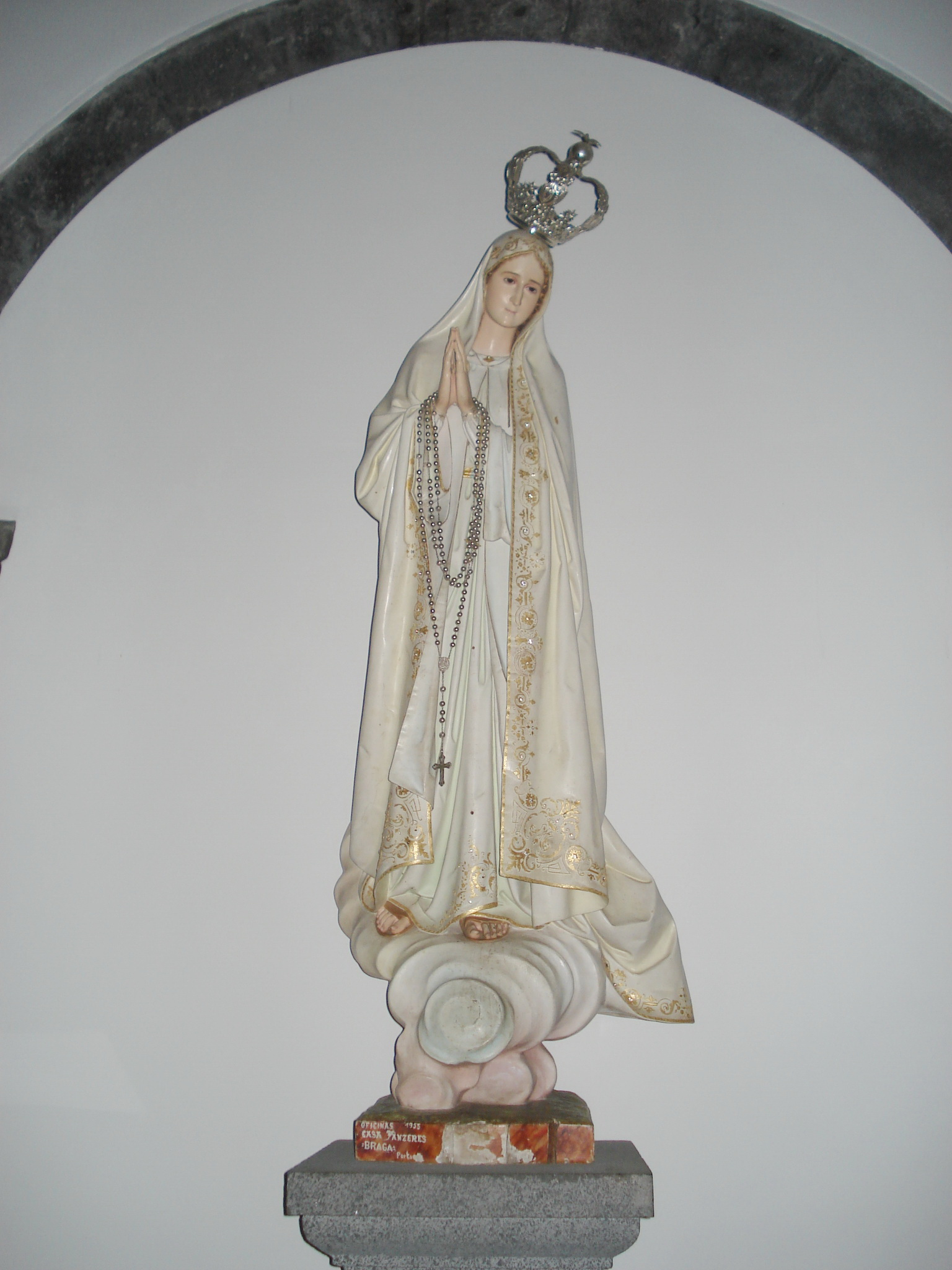 Statue of Our Lady of Fatima, within the Church of Santa Maria Madalena, civil parish of Madalena, municipality of Madalena (Azores), Portugal